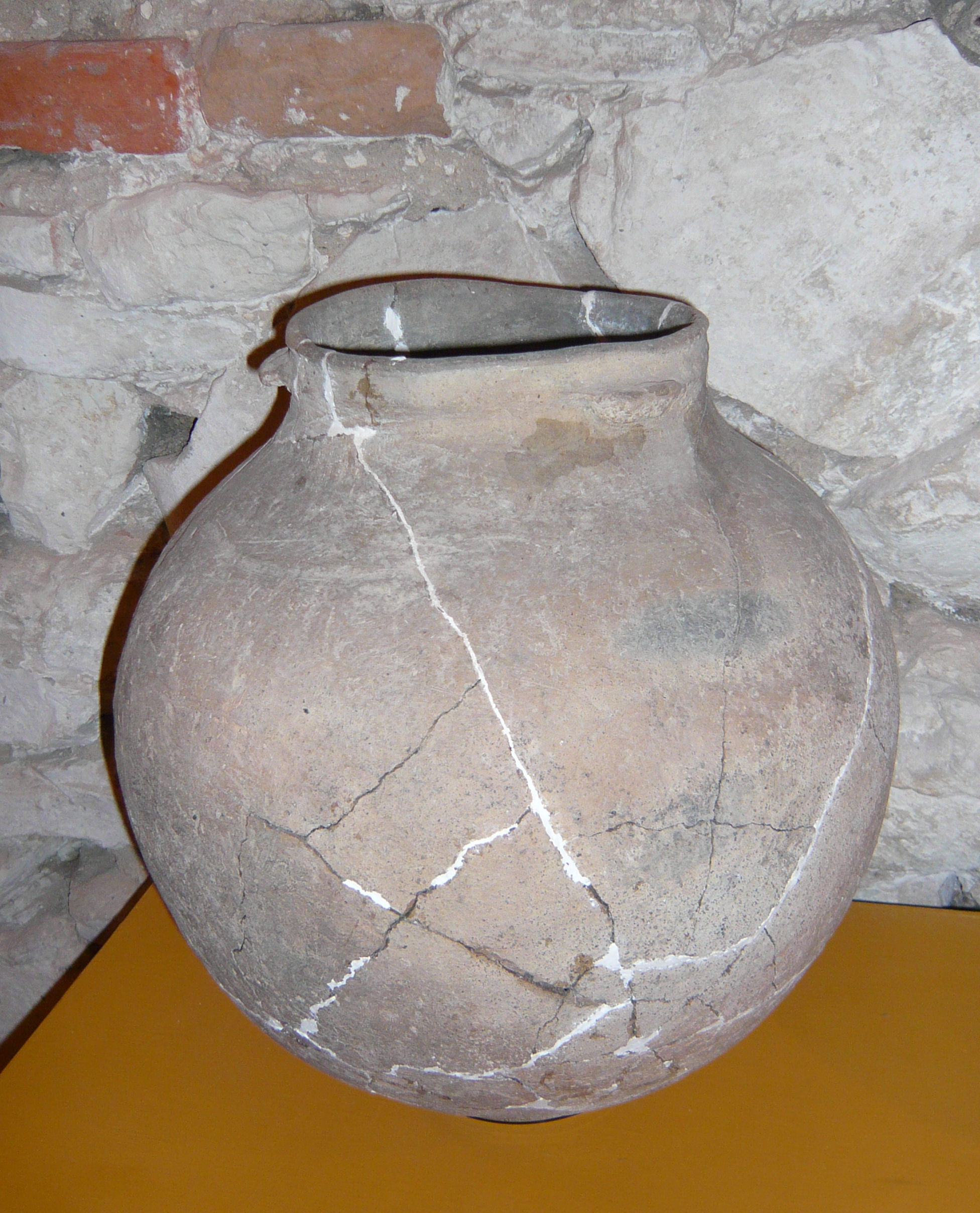 Corded Ware culture Krasnystaw Polnad